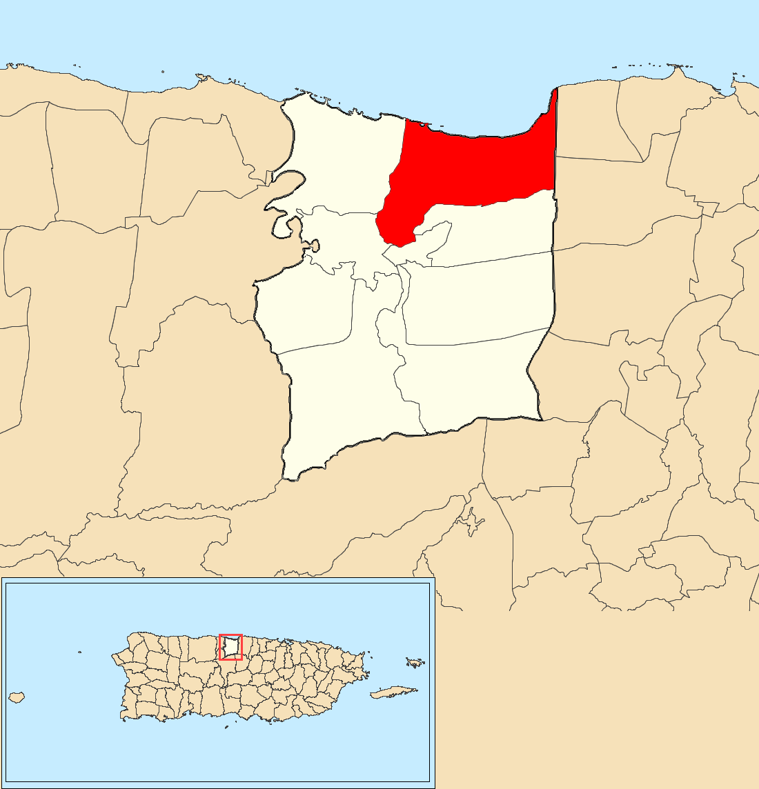 Locator map for barrio in Manatí, Puerto Rico